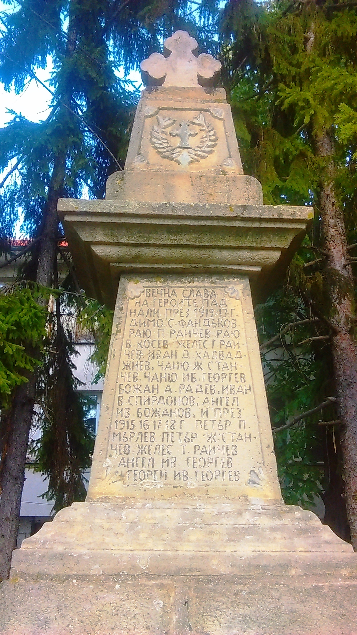 A Soldiers' Monument in Prilep village, Burgas province